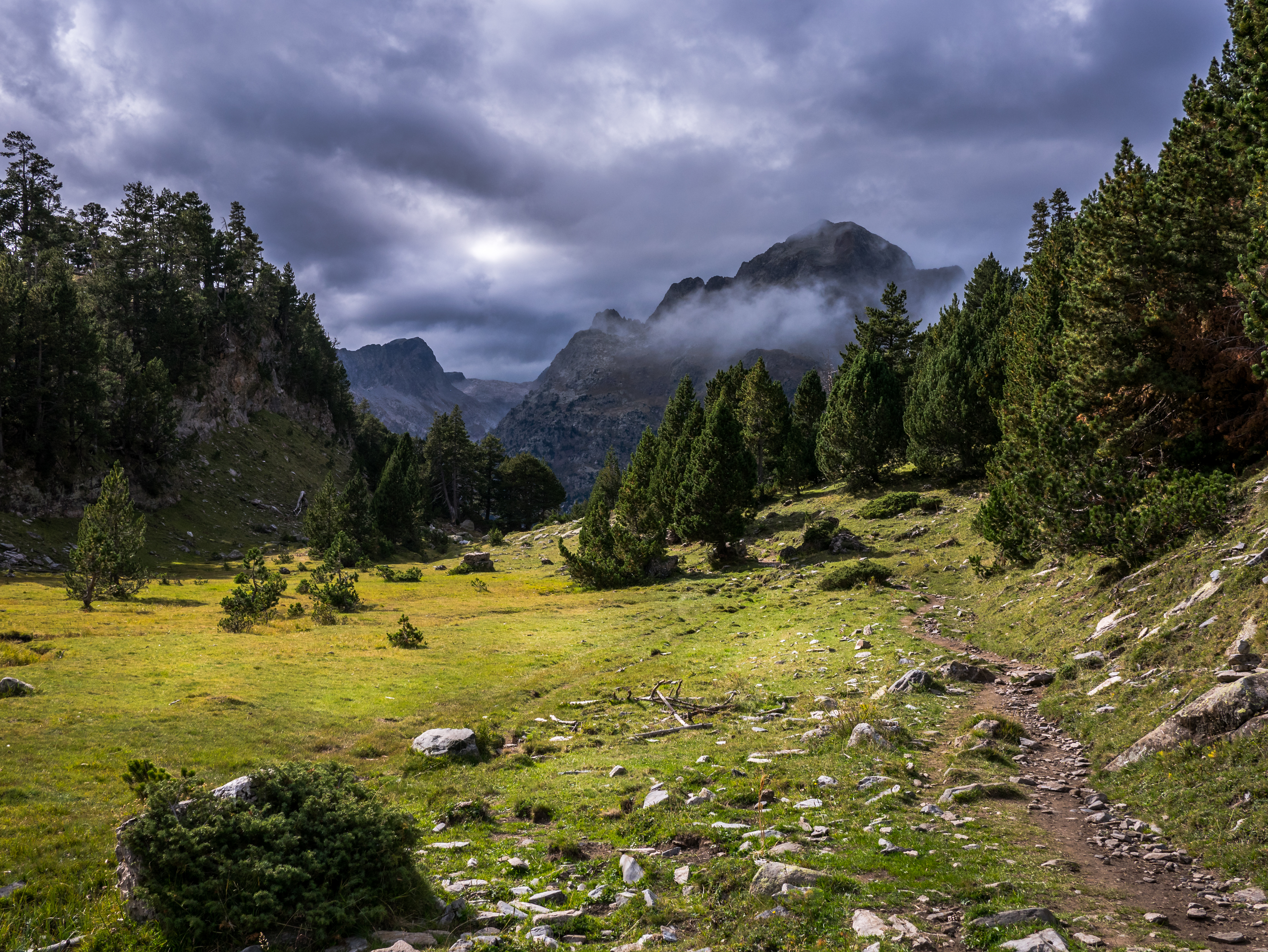 Hiking trail from La Besurta to the Llanos del Hospital plains. Benasque, Huesca, Aragon, Spain